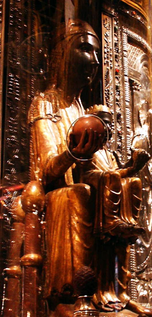 The Virgin of Montserrat (La Moreneta). on Nov. 11, 2004.